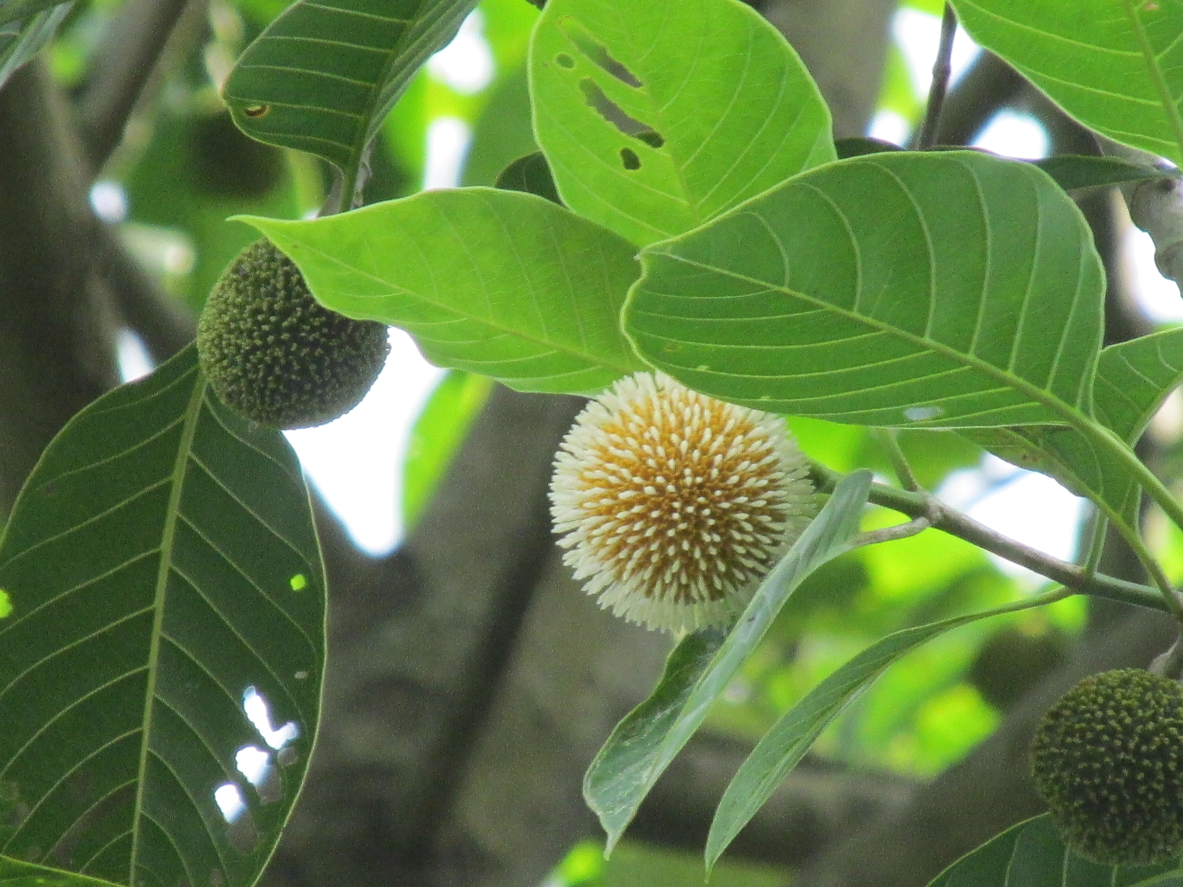 Neolamarckia Cadamba flower in tree, Bangladesh